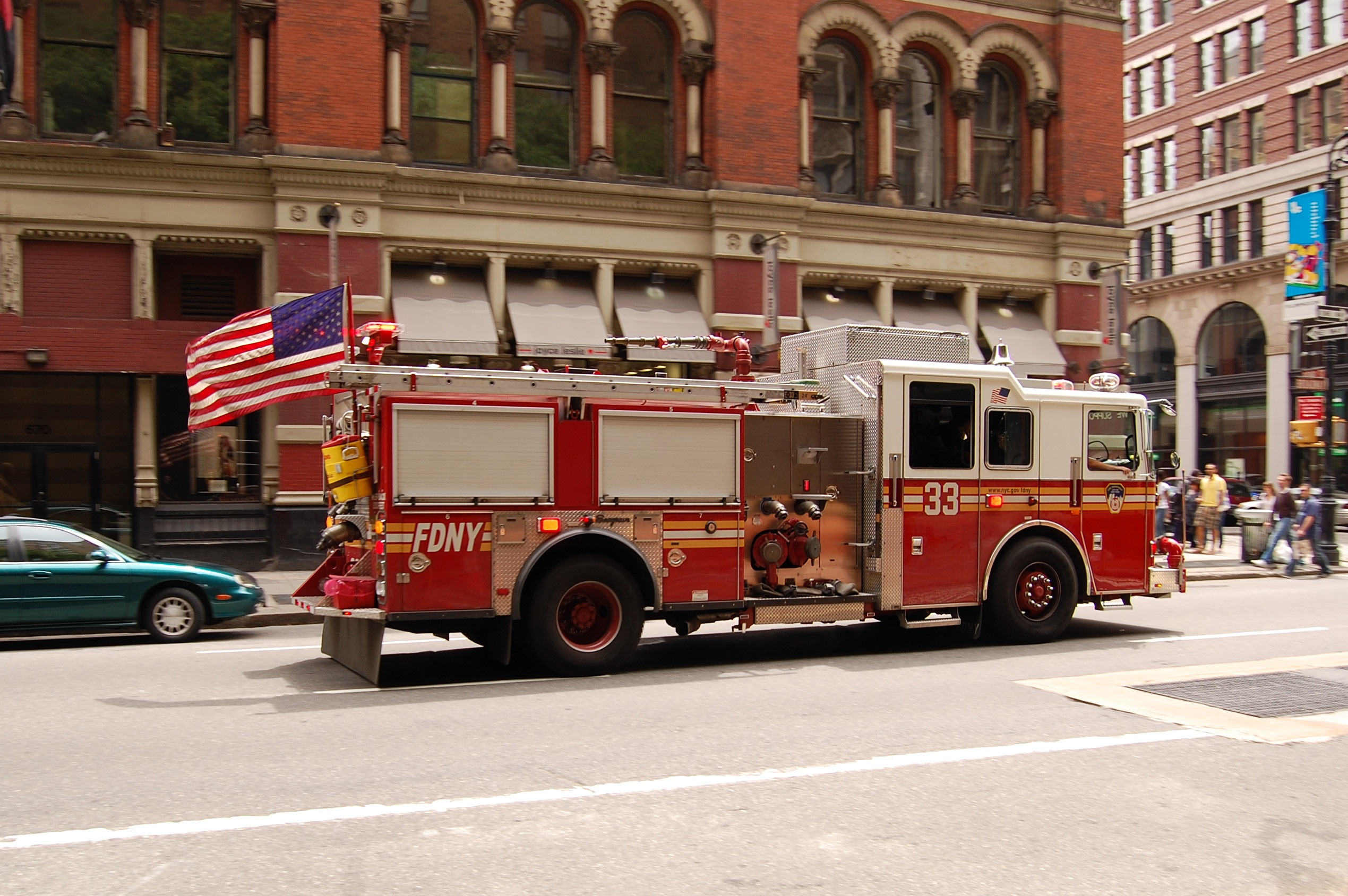 A New York City fire engine en route to a call.